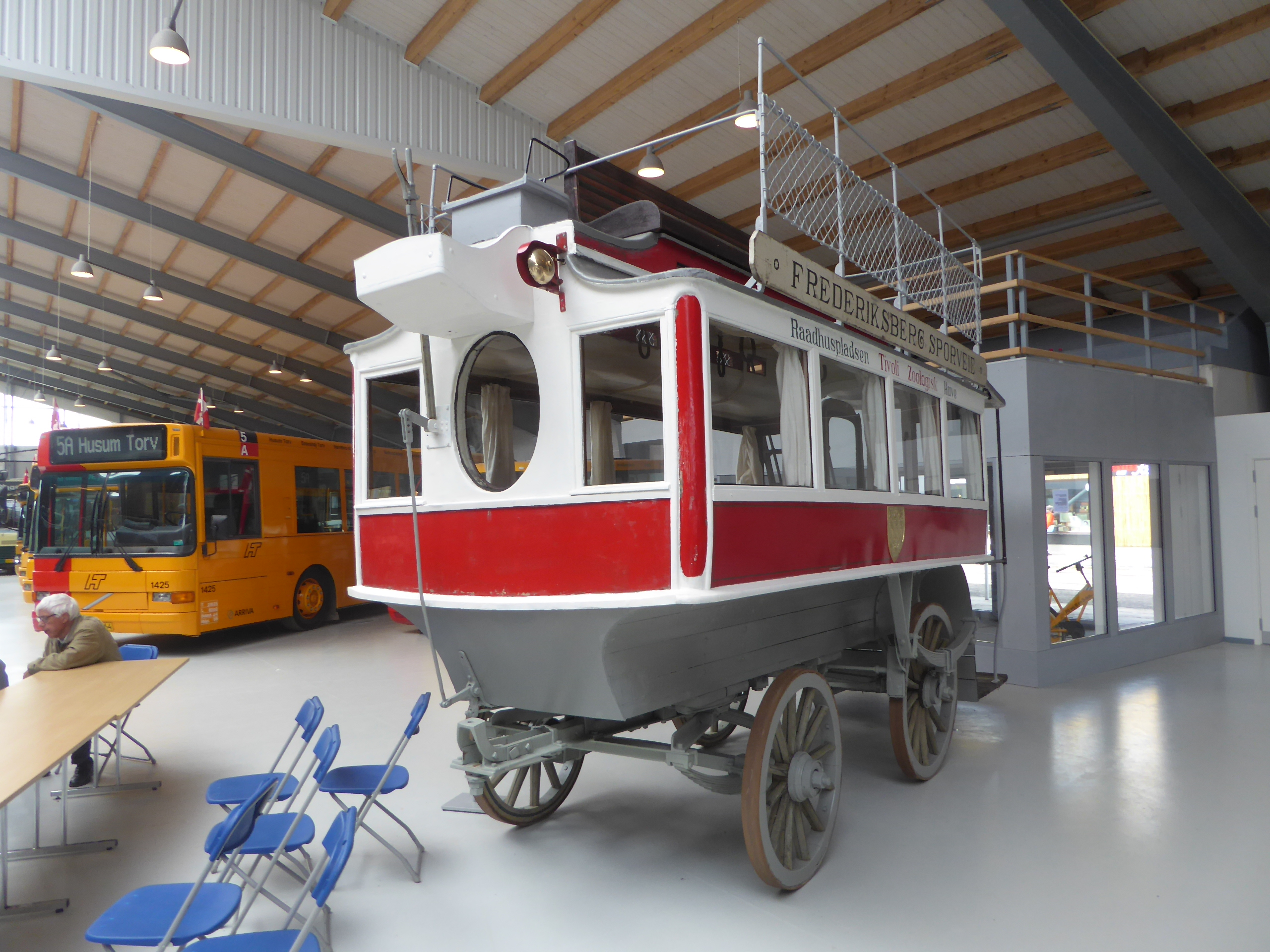 Horse-drawn bus from Copenhagen, build somewhere between 1872 and 1895, in the new bus exhibition hall at Sporvejsmuseet Skjoldenæsholm in Denmark.